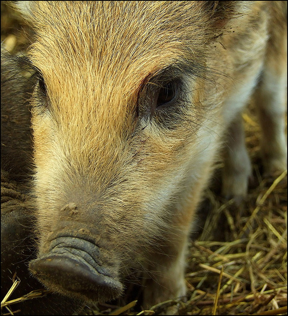 A picture of a little wild pig taken in Czech Republic. Near to Brno (Bystrc) is small preserve with wild pigs, mouflons and other typical czech animals. Camera: Fujifilm FinePix S6500fd License on Flickr (2011-02-18): CC-BY-2.0 Flickr tags: s6500fd, brno